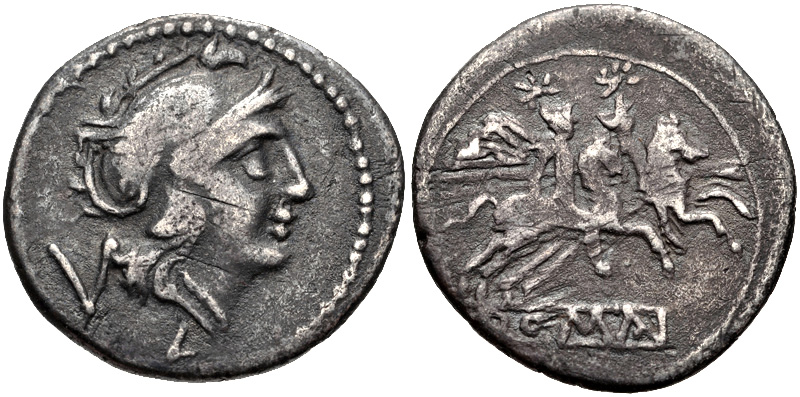 Roma: Anonymous. 211-210 BC. AR Quinarius (16mm, 1.96 g, 4h). Luceria mint. Helmeted head of Roma right; V behind, L below (, mint mark) The Dioscuri riding right. In exergue ROMA in tablet. Crawford 98A/3; Sydenham 176a; RSC 33e. VF, a few light scratches under dark toning.